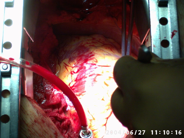 Coronary artery bypass surgery, the usage of cardiopulmonary bypass